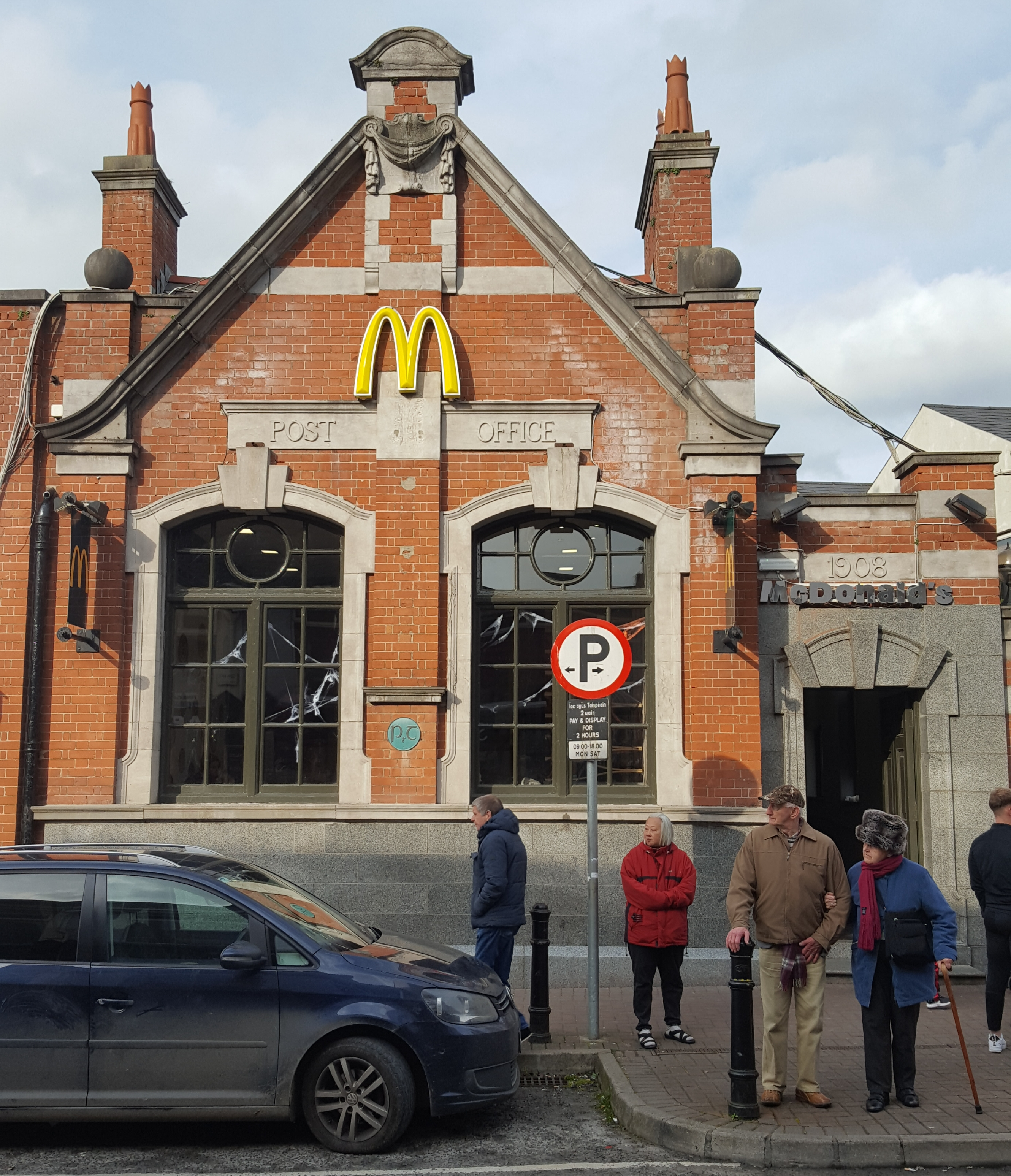 The post office was built in 1908 on the site of an earlier post office. In 1990 the post office was re-located to Kennedy Road. The building of a new shopping centre re-oriented the town’s centre. The onetime post office was acquired as the site of the town’s first McDonald’s restaurant.